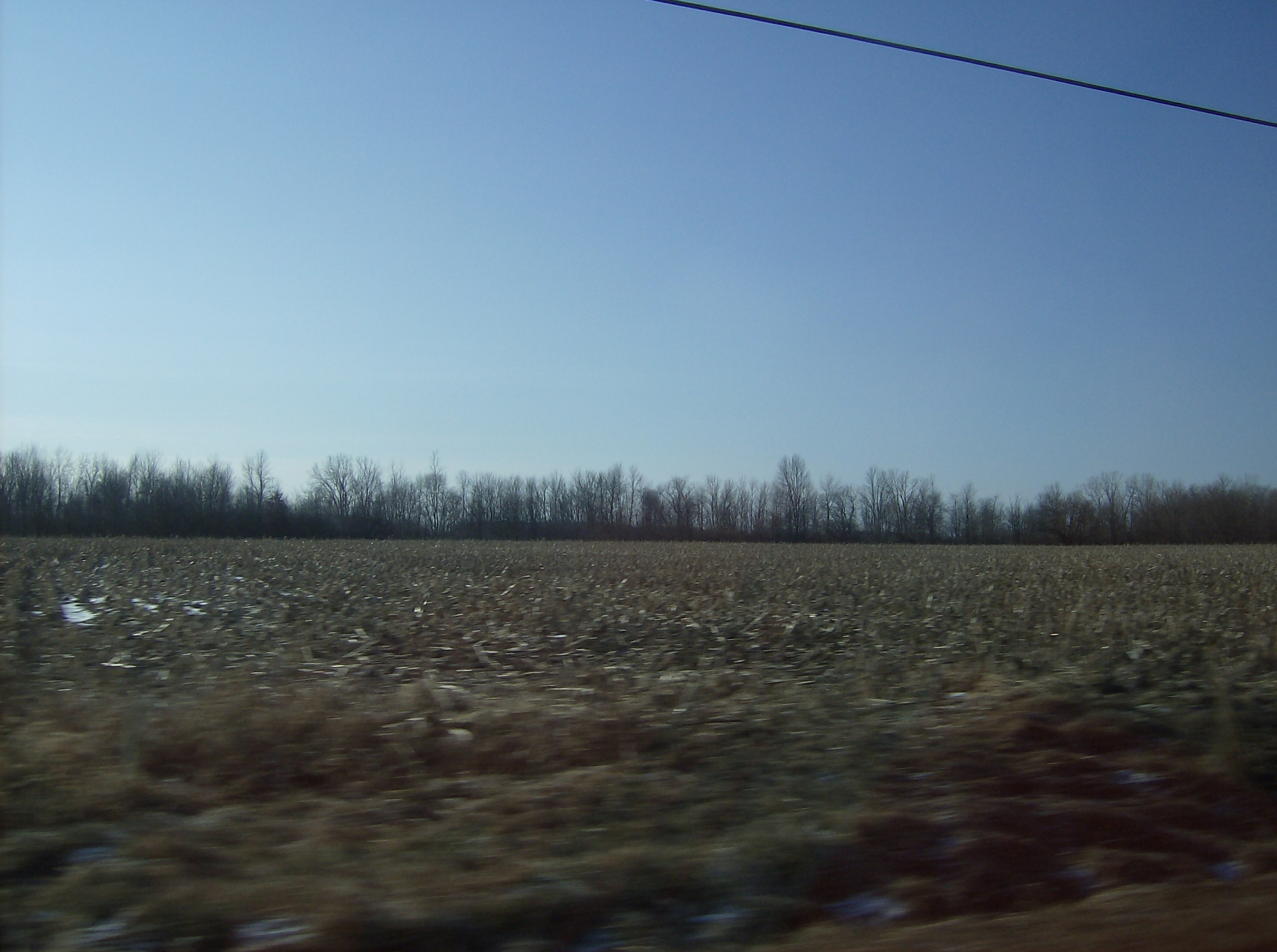 A farm field in northern Union Township, Adams County, Indiana, United States. Picture taken southward from U.S. Route 224.